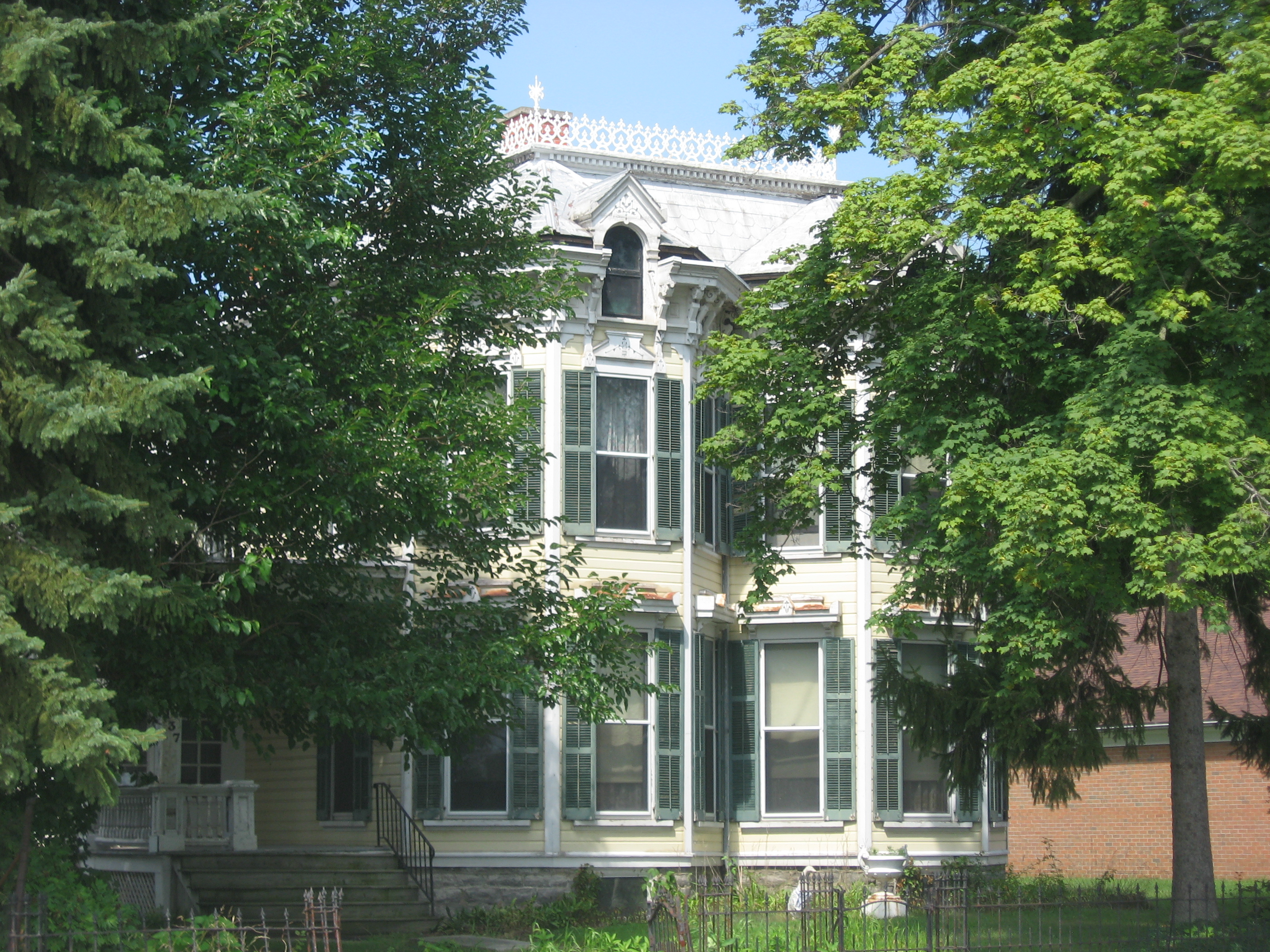 Front of the George S. Clement House, located at 137 Clinton Street in Wauseon, Ohio, United States. Built in 1872, it is listed on the National Register of Historic Places.